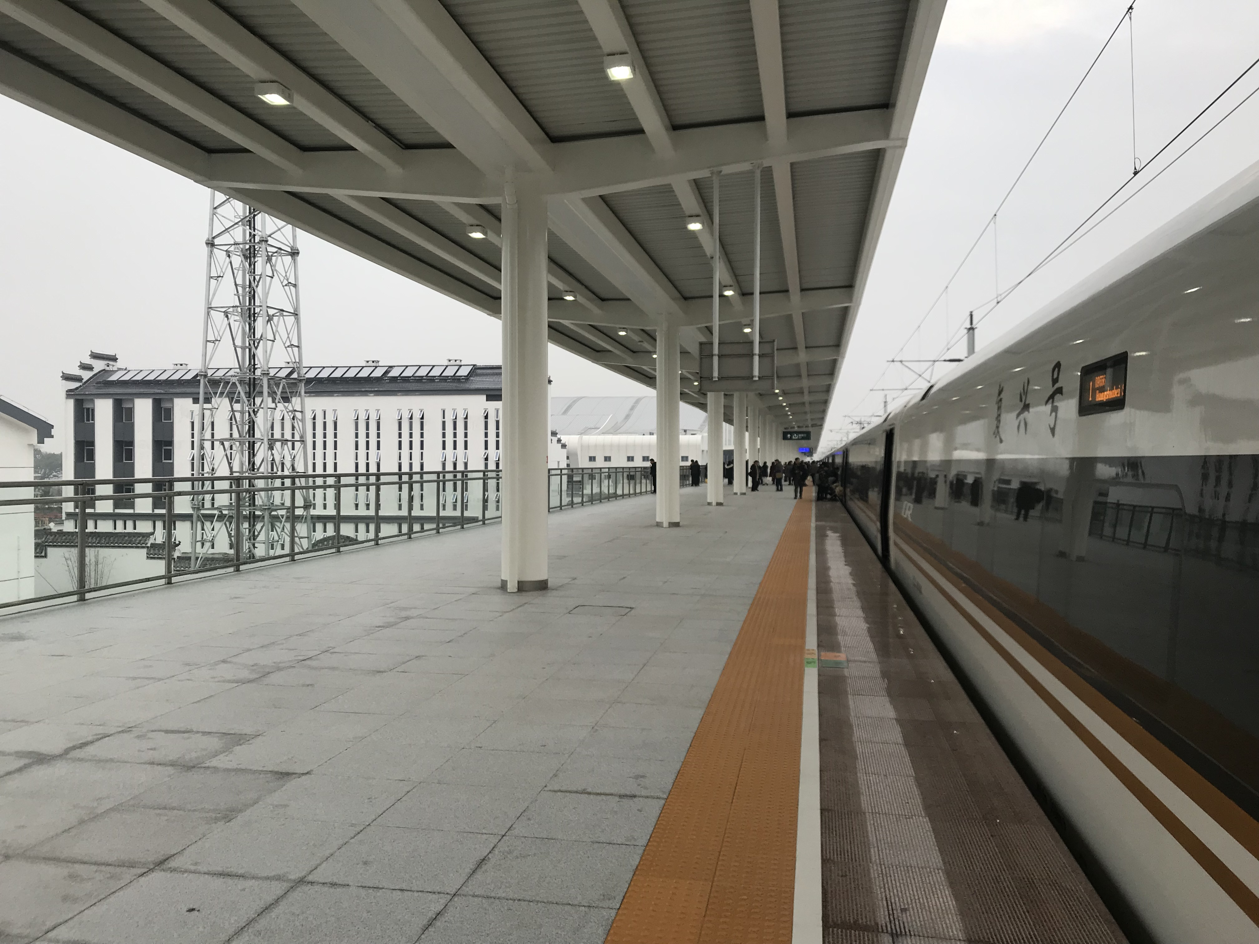 201812 Platorm 1 of Tonglu Station